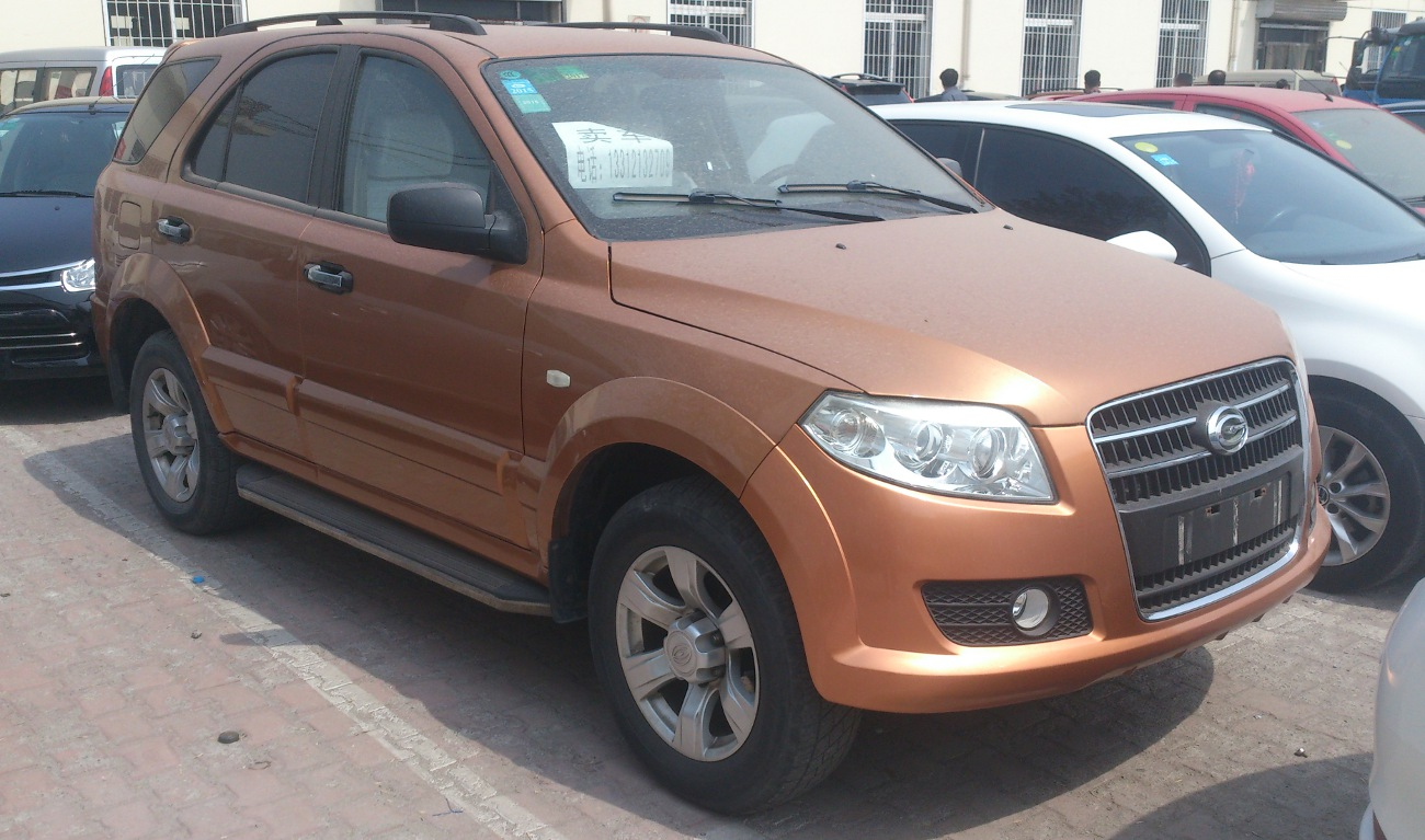 Gonow Aoosed G3 photographed in Tianjin, China.